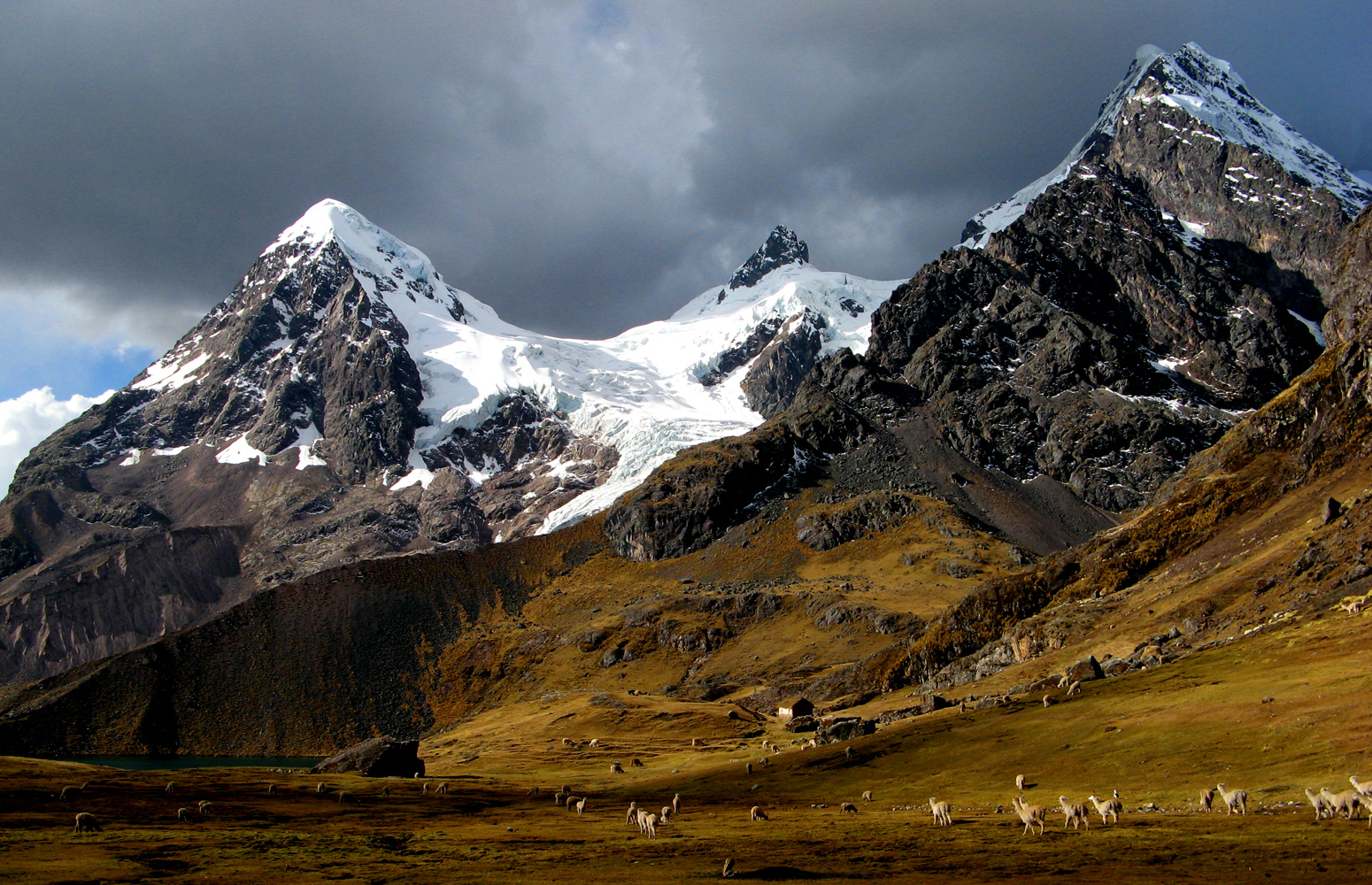 Hillside of peruvian Ausangate mountain.